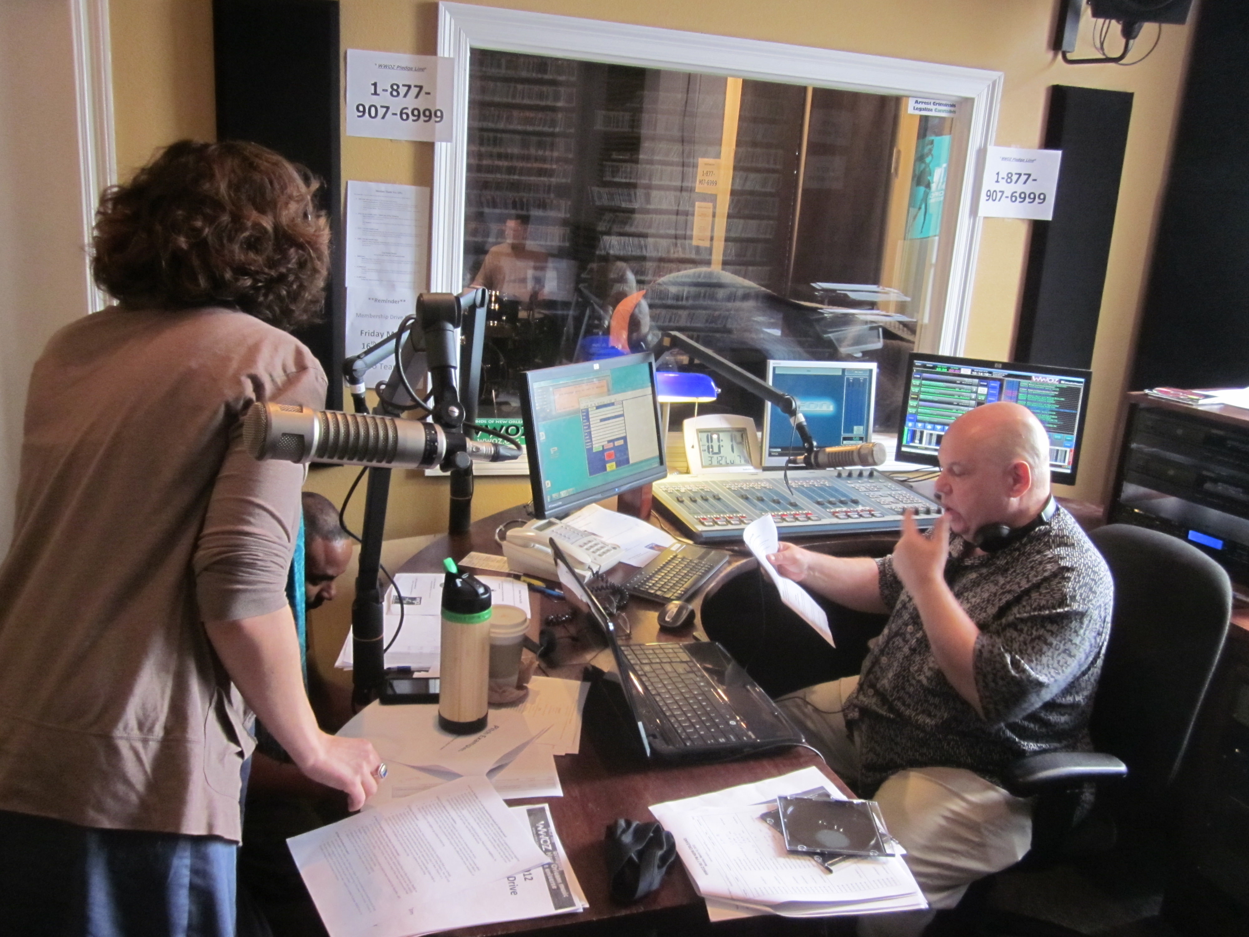 Membership drive time at community radio station WWOZ, New Orleans.